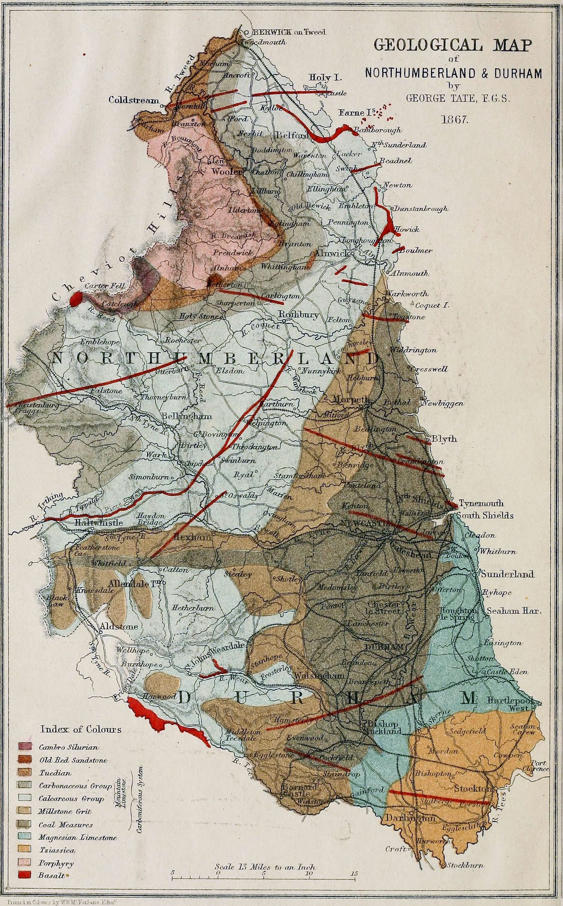 Geological Map of Northumberland and Durham 1867